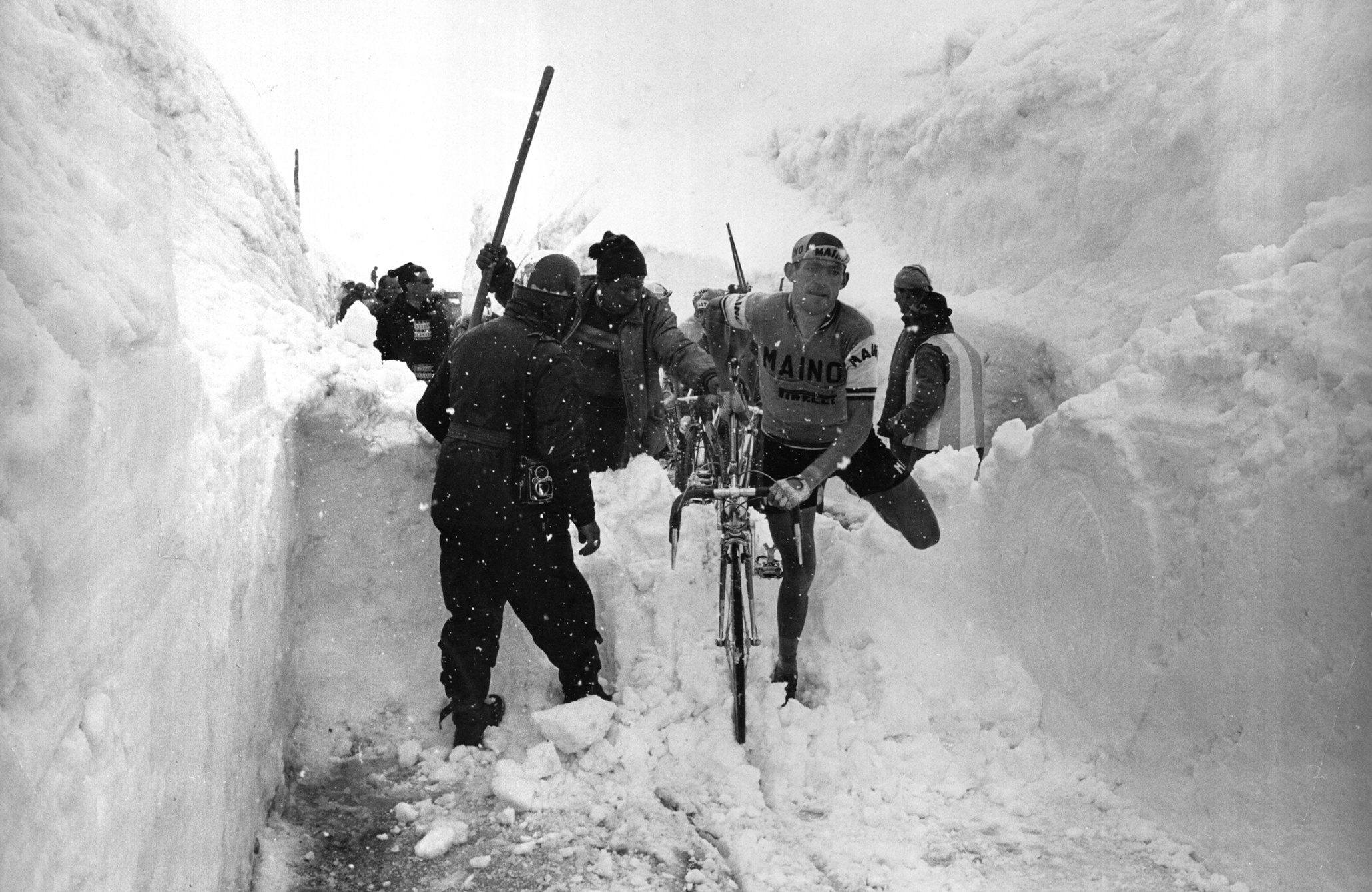 The Italian cyclist Aldo Moser carrying his bicycle over a pile of snow during the 20th stage of the Giro d'Italia Madesimo-Stelvio.